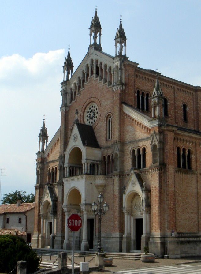 Pieve di Soligo: chiesa dell'Assunta